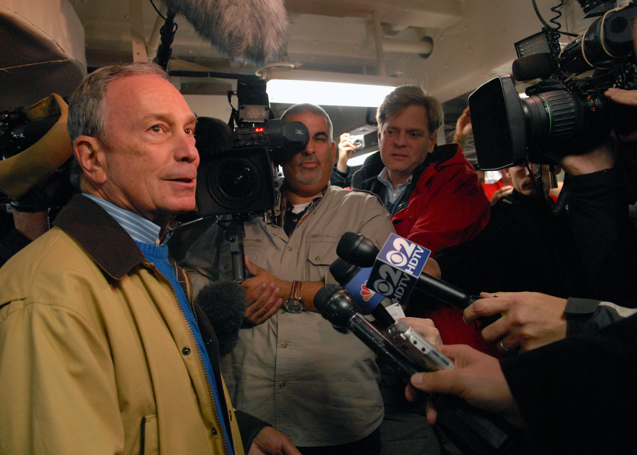 ATLANTIC OCEAN (Nov. 1, 2009) New York Mayor Michael Bloomberg speaks to the media aboard the amphibious transport dock ship Pre-Commissioning Unit (PCU) New York (LPD 21). New York hosted more than 80 visitors the night before the ship was scheduled to arrive in New York City for its commissioning ceremony, scheduled for Nov. 7. (U.S. Navy photo by Mass Communication Specialist 1st Class Rachael L. Leslie/Released)